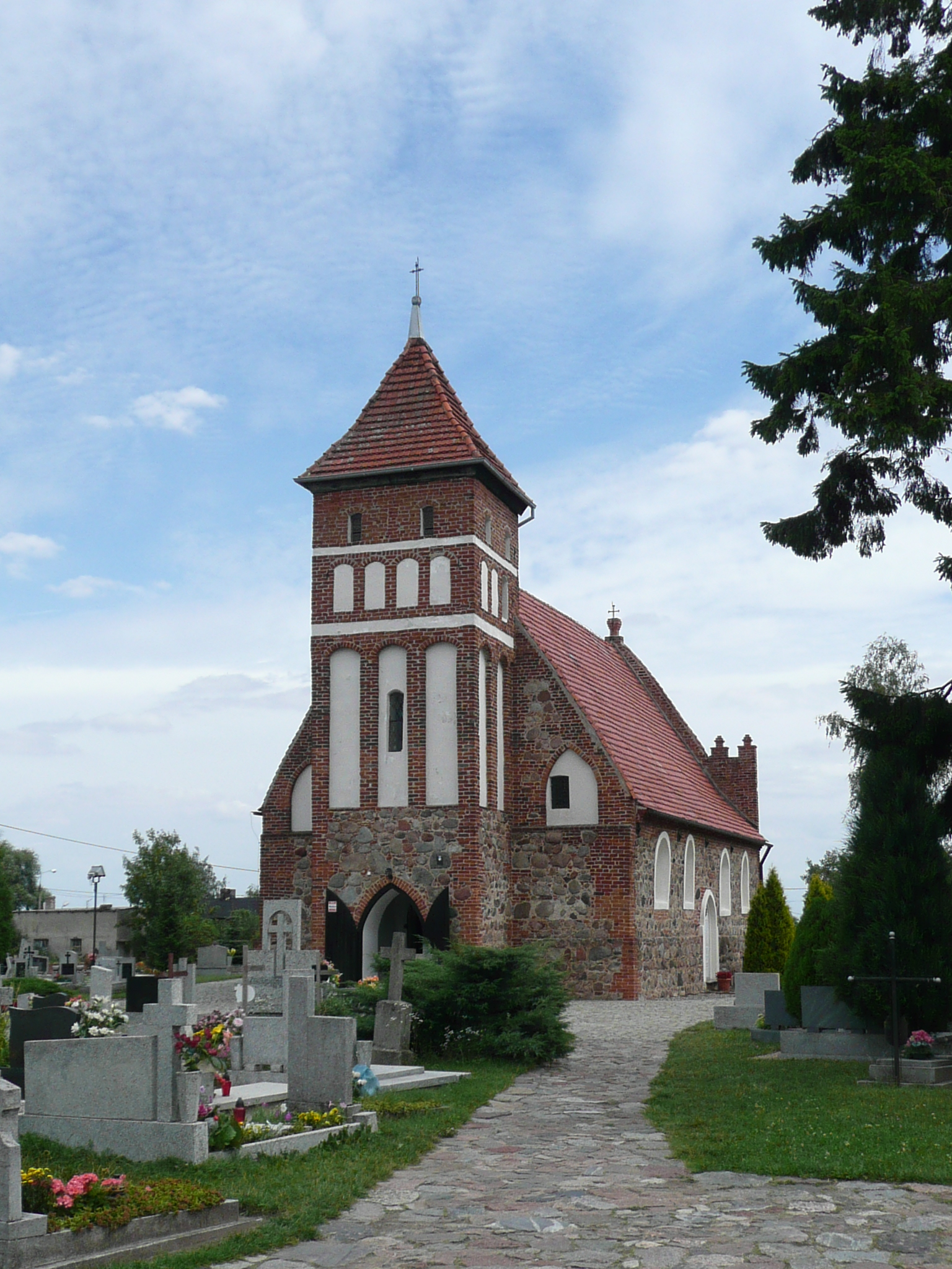 The church in Kiełbasin, Poland.